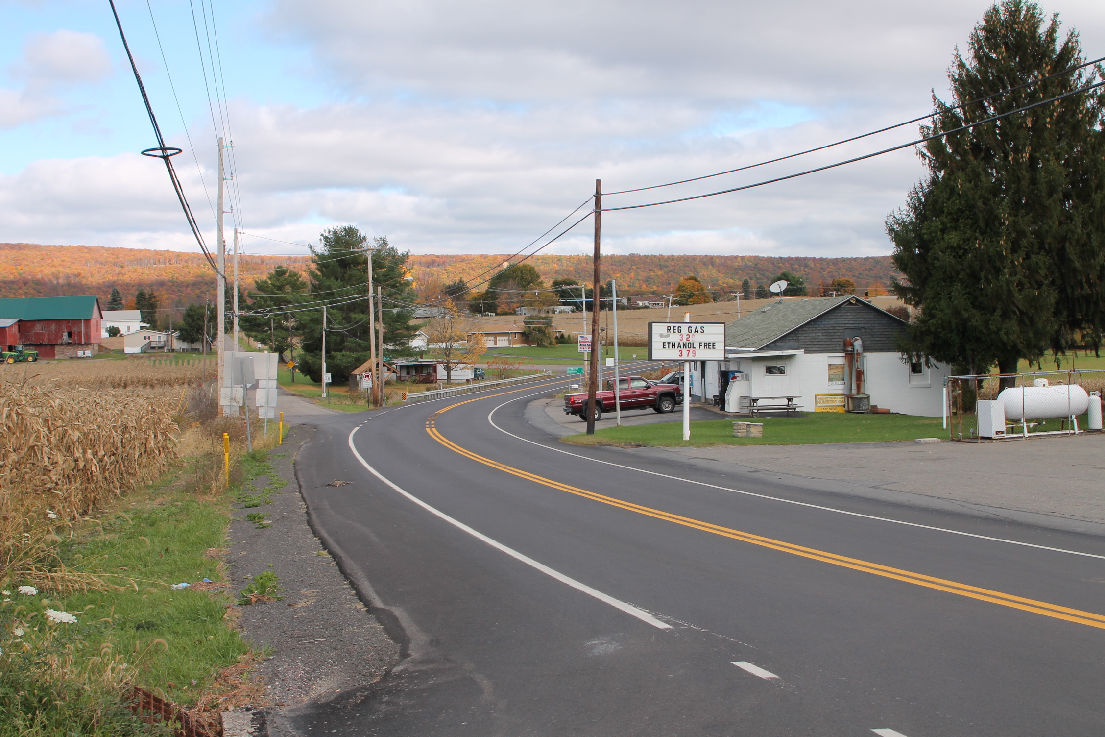 Pennsylvania Route 924 north of Brandonville